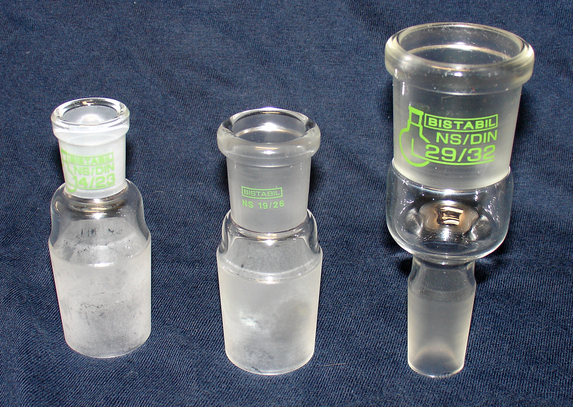 Ground glass joints reductors